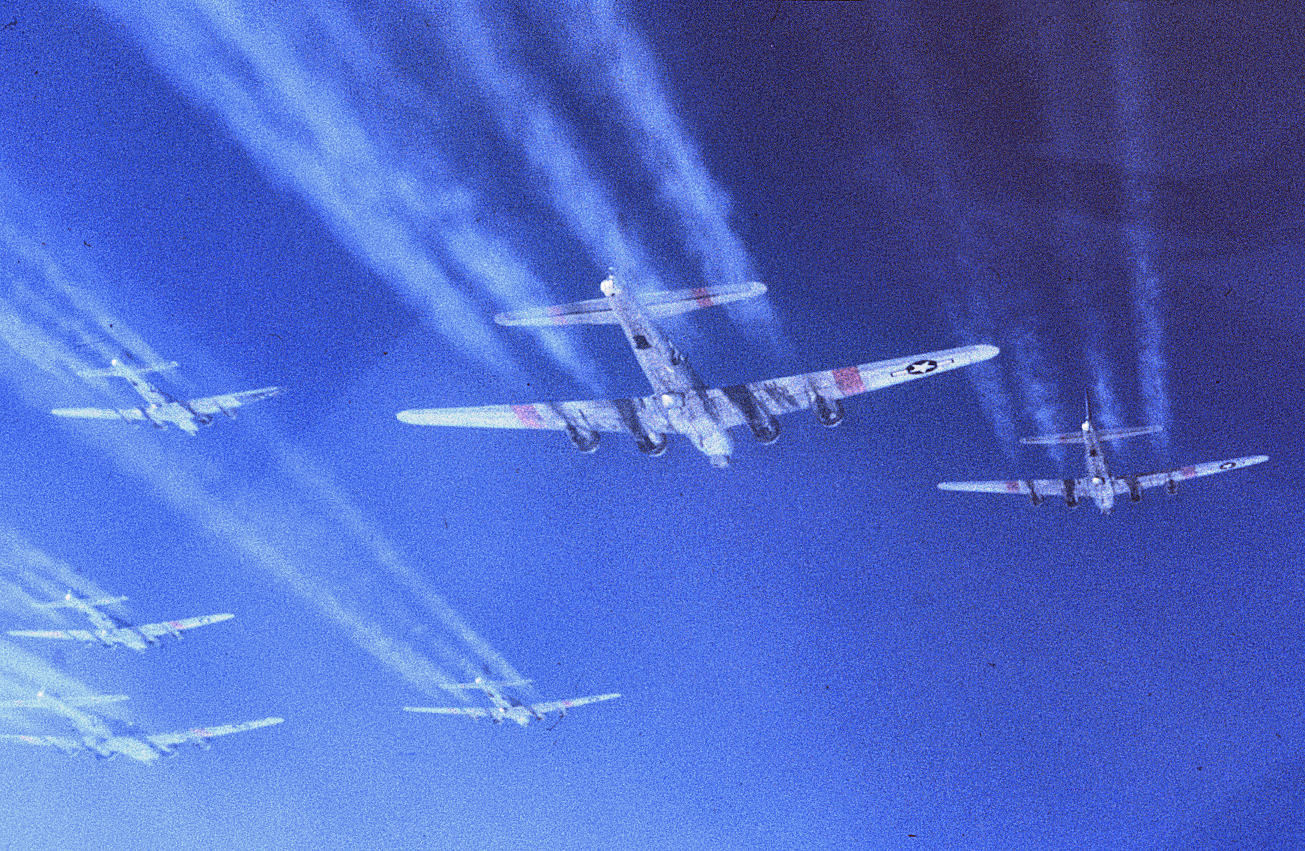 B-17 Flying Fortresses of the 490th Bomb Group fly in formation during a mission.